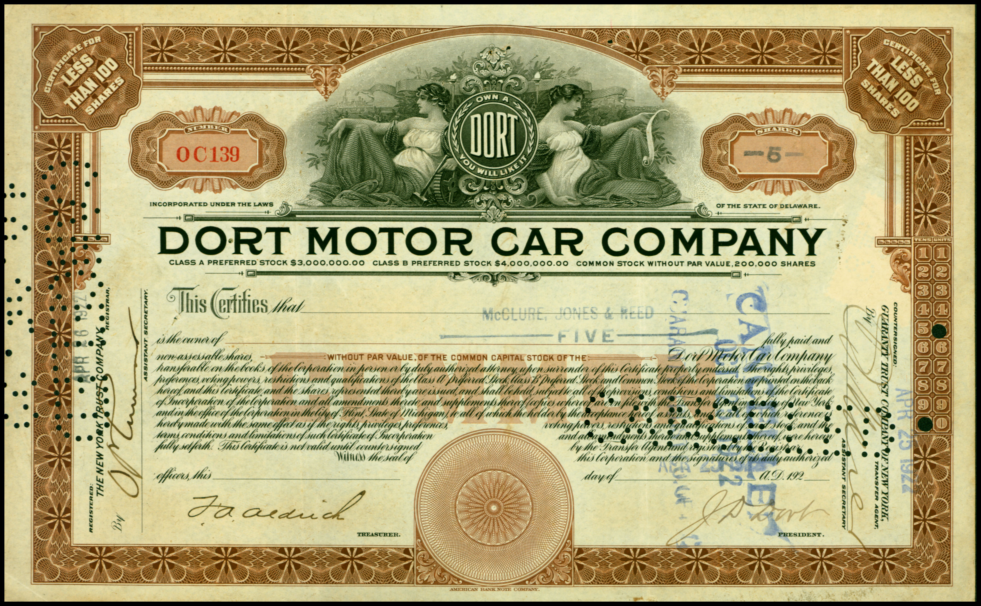 Share of the Dort Motor Car Company, issued 25. April 1922